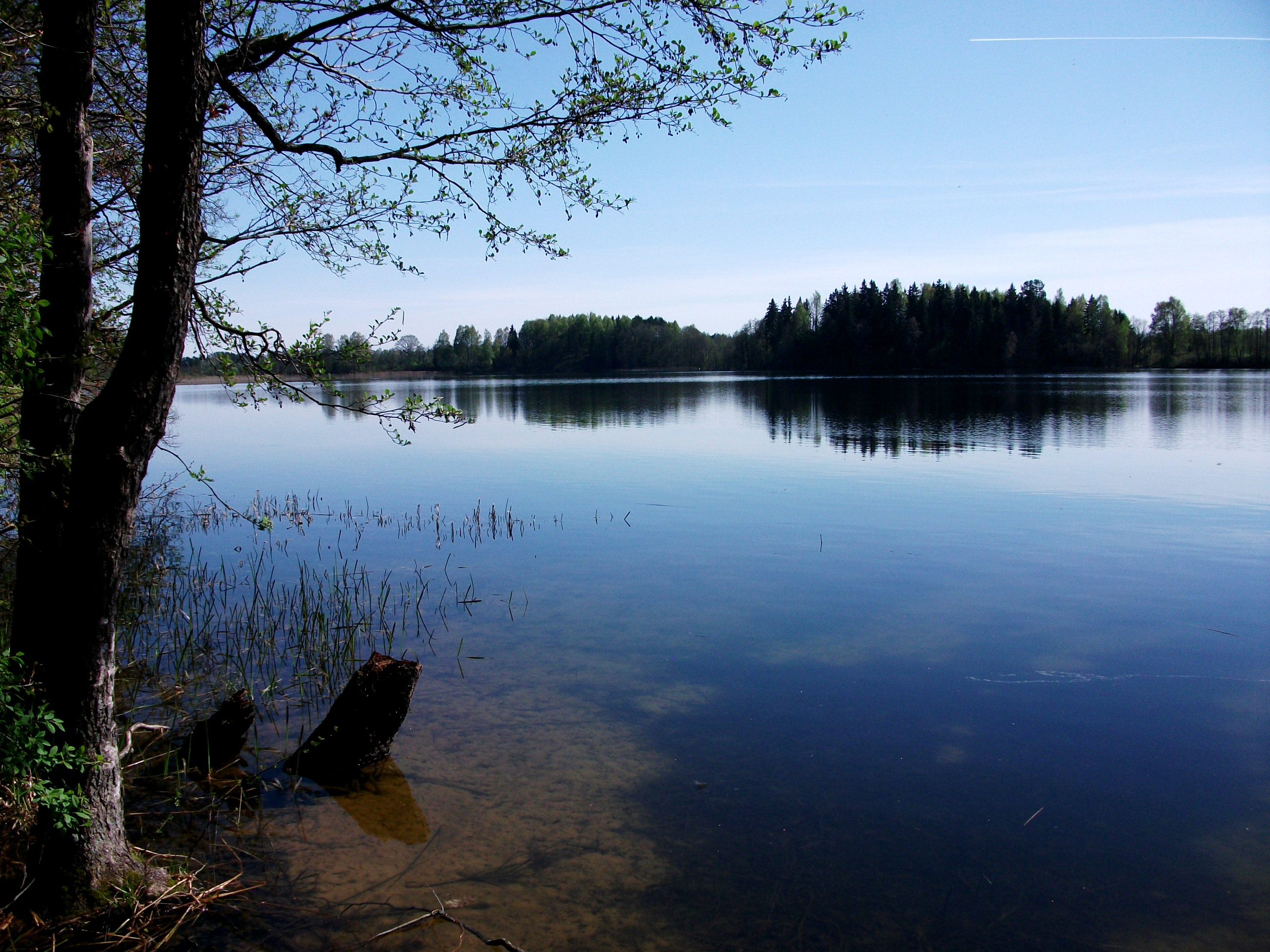 Yodzi Lake, Astraviec district, Belarus